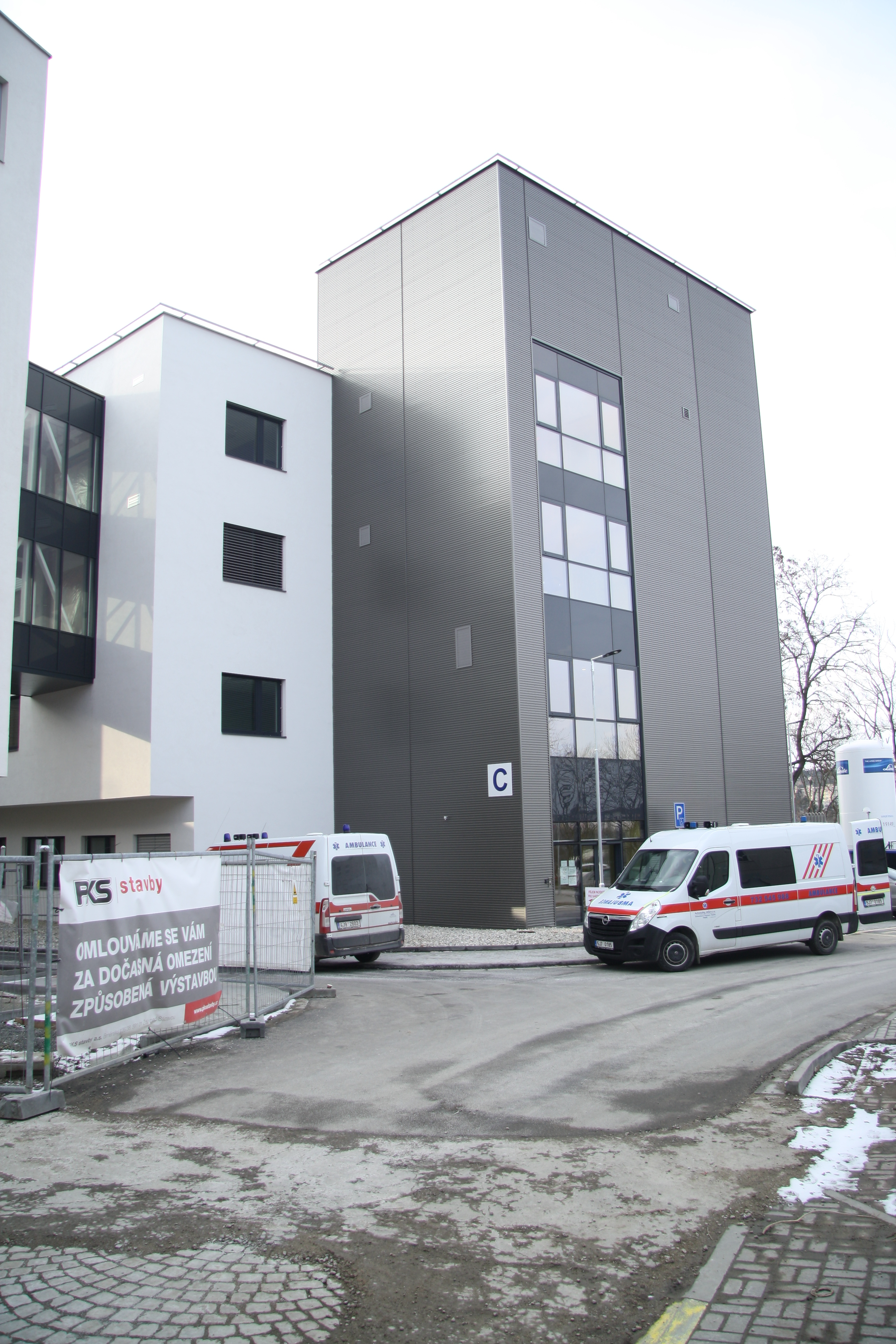 Front part of building C in Třebíč Hospital in Třebíč, Třebíč District.